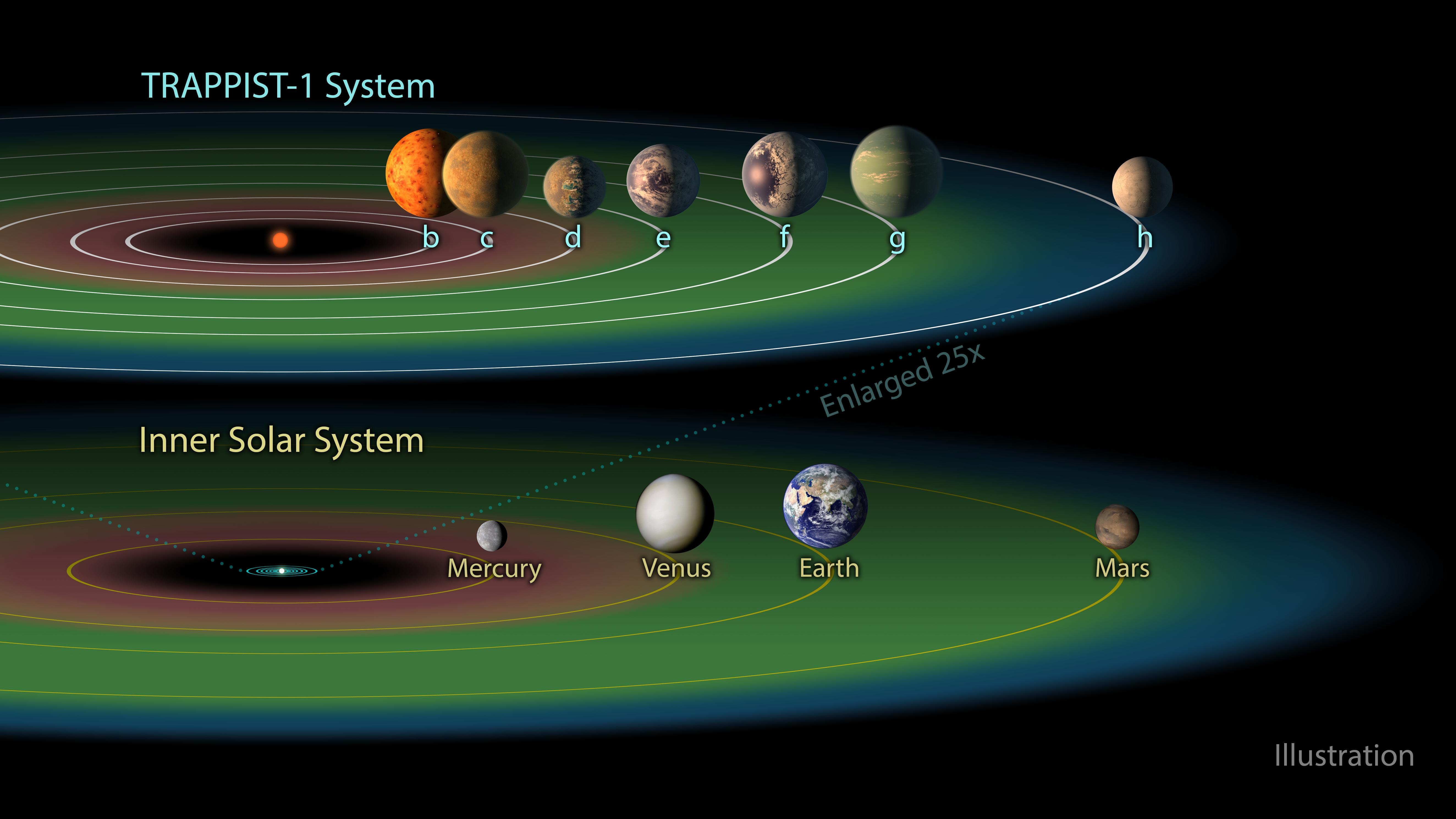 The TRAPPIST-1 system contains a total of seven planets, all around the size of Earth. Three of them -- TRAPPIST-1e, f and g -- dwell in their star's so-called â€œhabitable zone.â€ The habitable zone, or Goldilocks zone, is a band around every star (shown here in green) where astronomers have calculated that temperatures are just right -- not too hot, not too cold -- for liquid water to pool on the surface of an Earth-like world. While TRAPPIST-1b, c and d are too close to be in the system's likely habitable zone, and TRAPPIST-1h is too far away, the planets' discoverers say more optimistic scenarios could allow any or all of the planets to harbor liquid water. In particular, the strikingly small orbits of these worlds make it likely that most, if not all of them, perpetually show the same face to their star, the way our moon always shows the same face to the Earth. This would result in an extreme range of temperatures from the day to night sides, allowing for situations not factored into the traditional habitable zone definition. The illustrations shown for the various planets depict a range of possible scenarios of what they could look like. The system has been revealed through observations from NASA's Spitzer Space Telescope and the ground-based TRAPPIST (TRAnsiting Planets and PlanetesImals Small Telescope) telescope, as well as other ground-based observatories. The system was named for the TRAPPIST telescope. NASA's Jet Propulsion Laboratory, Pasadena, California, manages the Spitzer Space Telescope mission for NASA's Science Mission Directorate, Washington. Science operations are conducted at the Spitzer Science Center at Caltech, also in Pasadena. Spacecraft operations are based at Lockheed Martin Space Systems Company, Littleton, Colorado. Data are archived at the Infrared Science Archive housed at Caltech/IPAC. Caltech manages JPL for NASA. For more information about the Spitzer mission, visit and